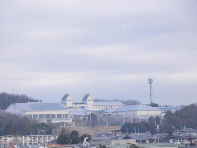 Nara University background